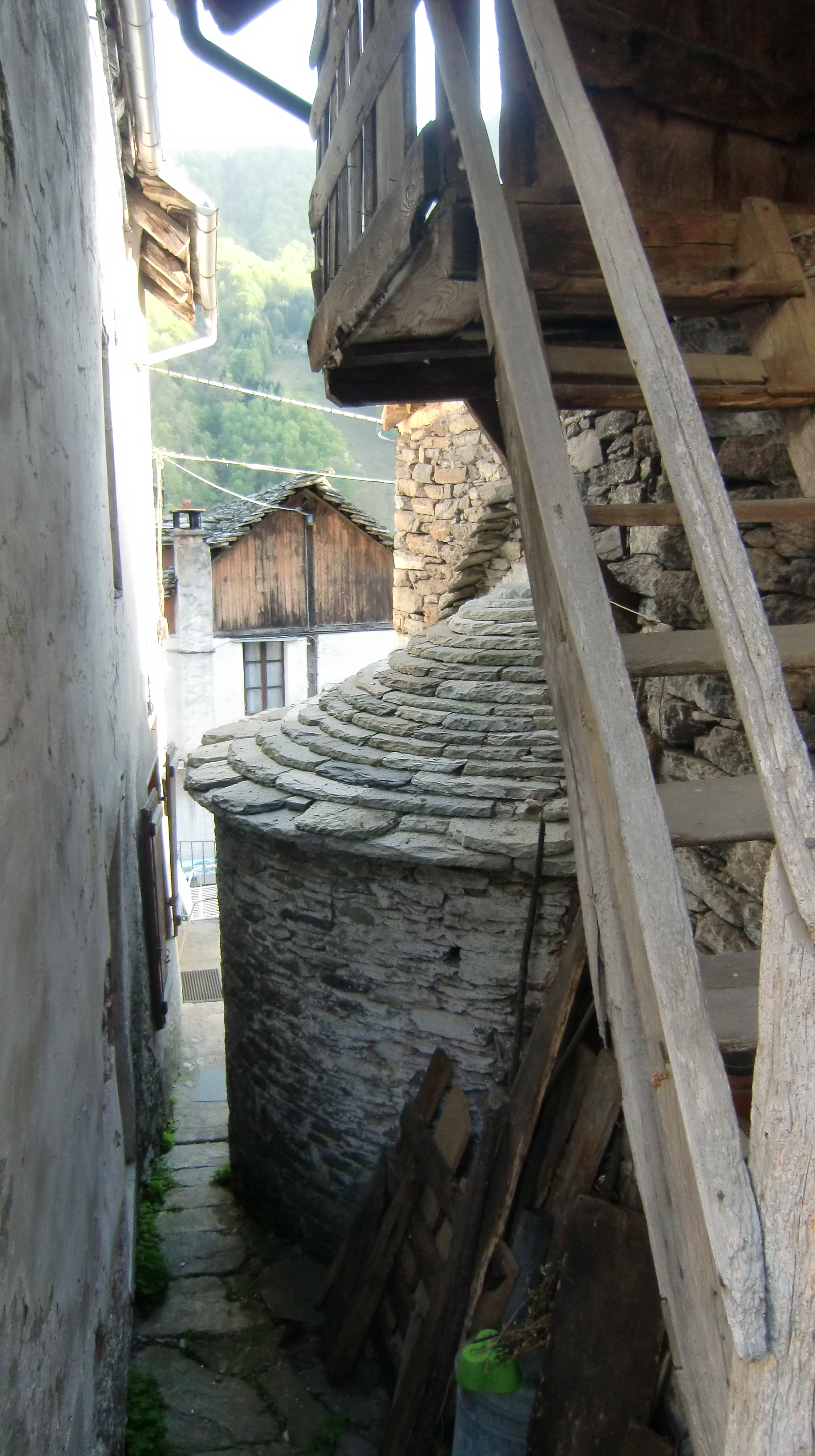 Oratorio di San Pantaleone, Boccioleto (VC), Italy, view of the apse